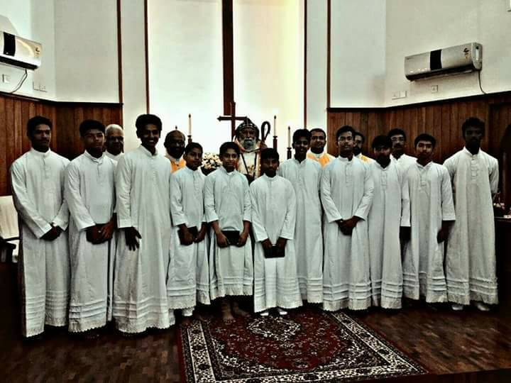 Altar Boys